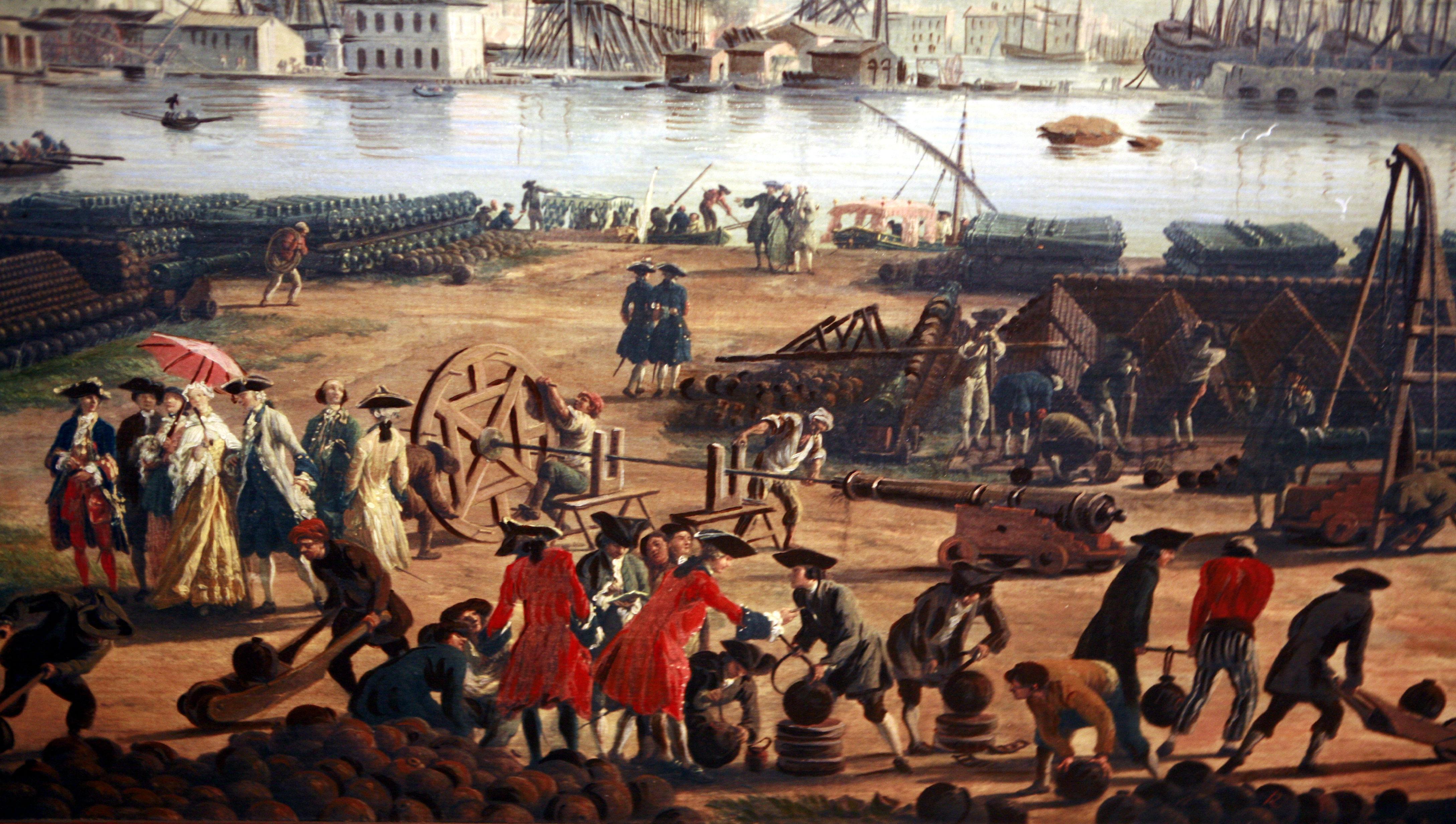 Series of paintings of the harbours of France : Toulon